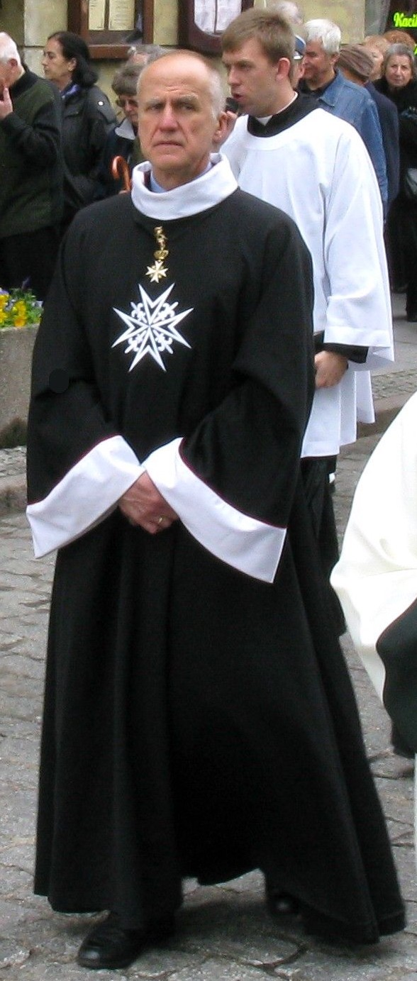 Knight of Grace and Devotion of the Sovereign Order of Malta in XXI century